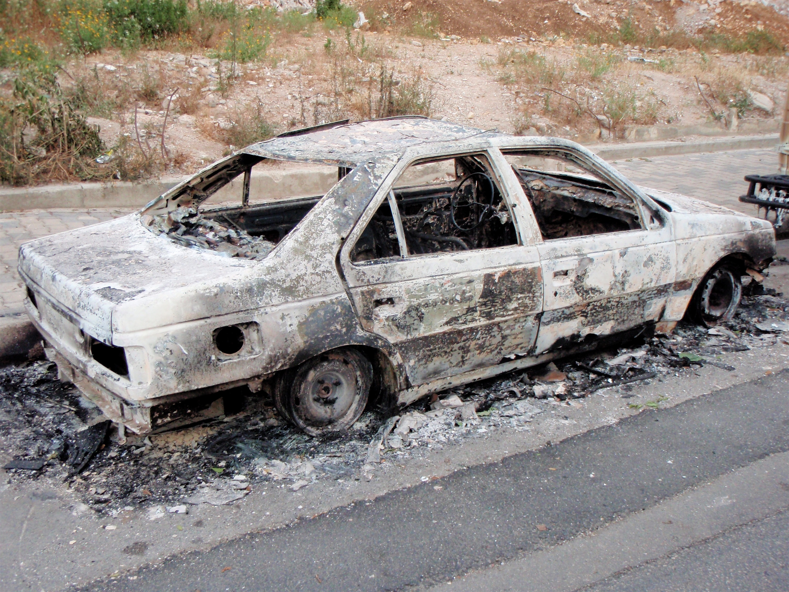 Heavily damaged car in Beirut, Lebanon, during the 2008 unrest in Lebanon